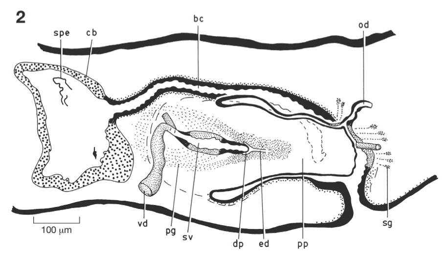 Dugesia artesiana. Holotype. Sagittal reconstruction of the copulatory apparatus. Anterior to the left. Abbreviations: bc, bursal canal; cb, copulatory bursa; dp, diaphragm; ed, ejaculatory duct; od, oviduct; pg, penis gland; pp, penis papilla; sg, shell glands; sv, seminal vesicle; vd, vas deferens; spe, spermatophore; sv, seminal vesicle.